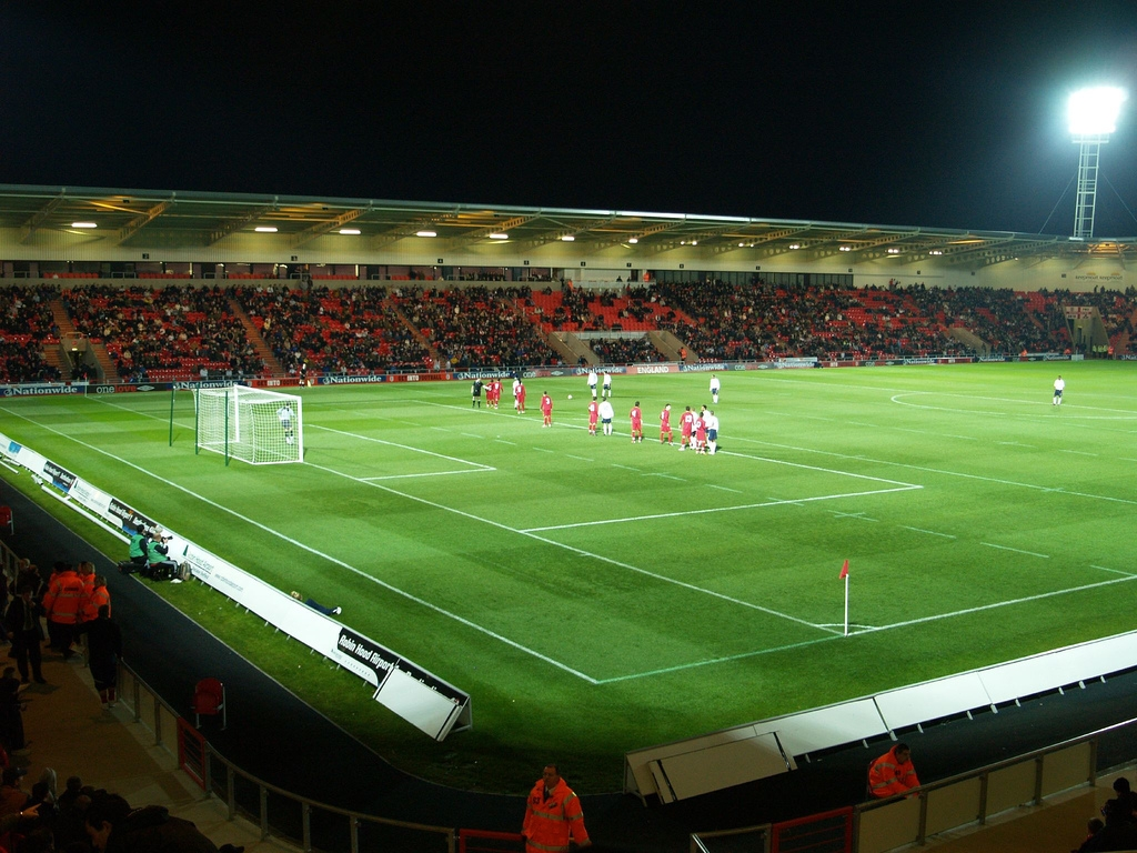 a photo during a game at the keepmoat